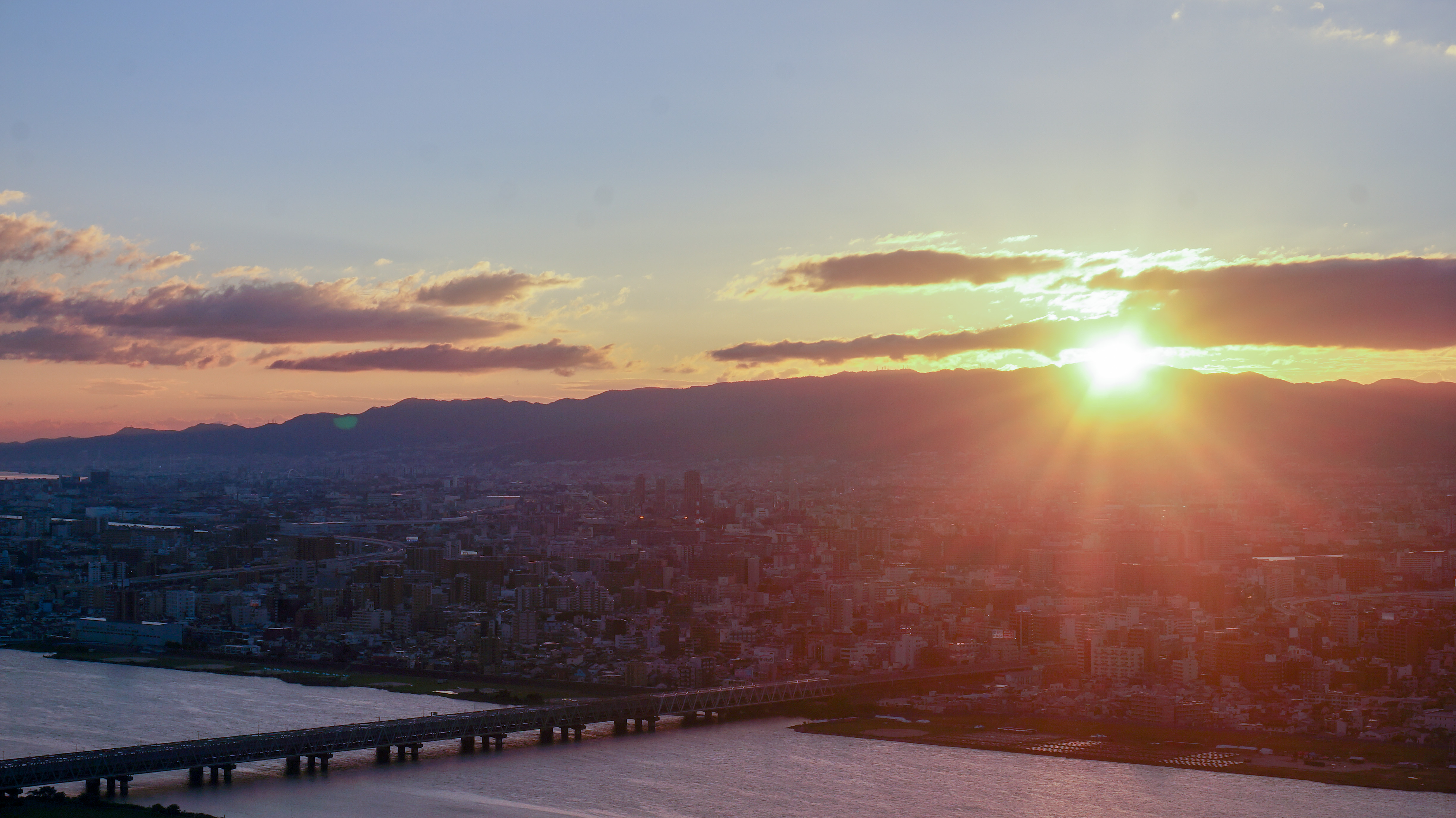 Umeda sunset from Umeda City